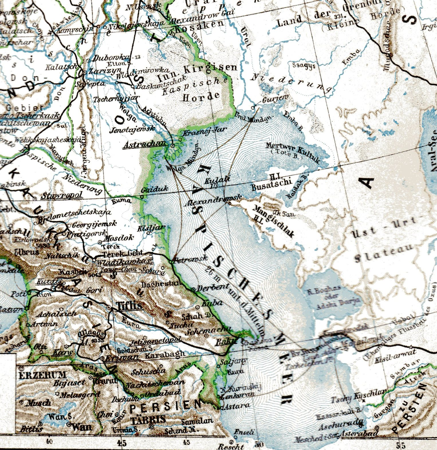 Caspian Sea round about 1907